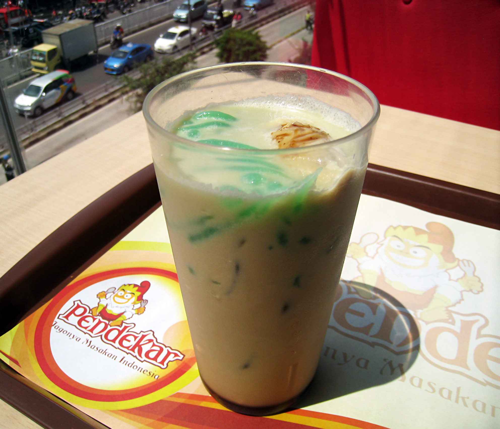 Cendol Durian, an Indonesian sweet beverage consists of cendol or green worm-like jelly made from rice flour, coconut milk, palm sugar, durian and a little bit of chocolate syrup. Pendekar, Indonesian fastfood restaurant, Atrium Senen, Jakarta, Indonesia.